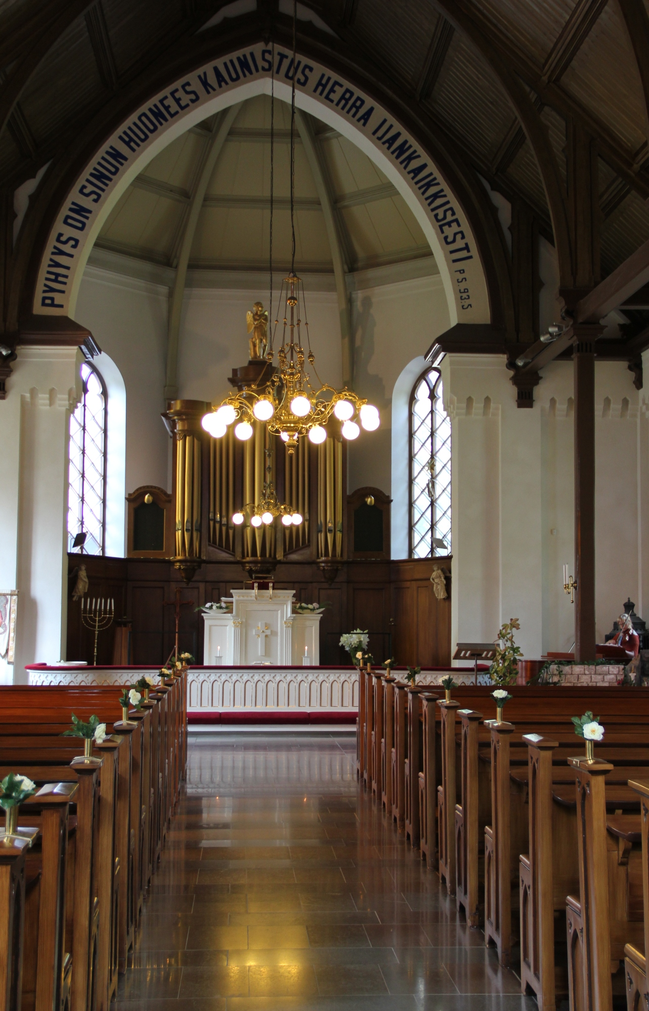 Finlayson Church Tampere Finland, interior